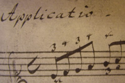 Part of the autograph (hence the PD indication) score for Applicatio in C major, BWV 994 by Johann Sebastian Bach (1685-1750).